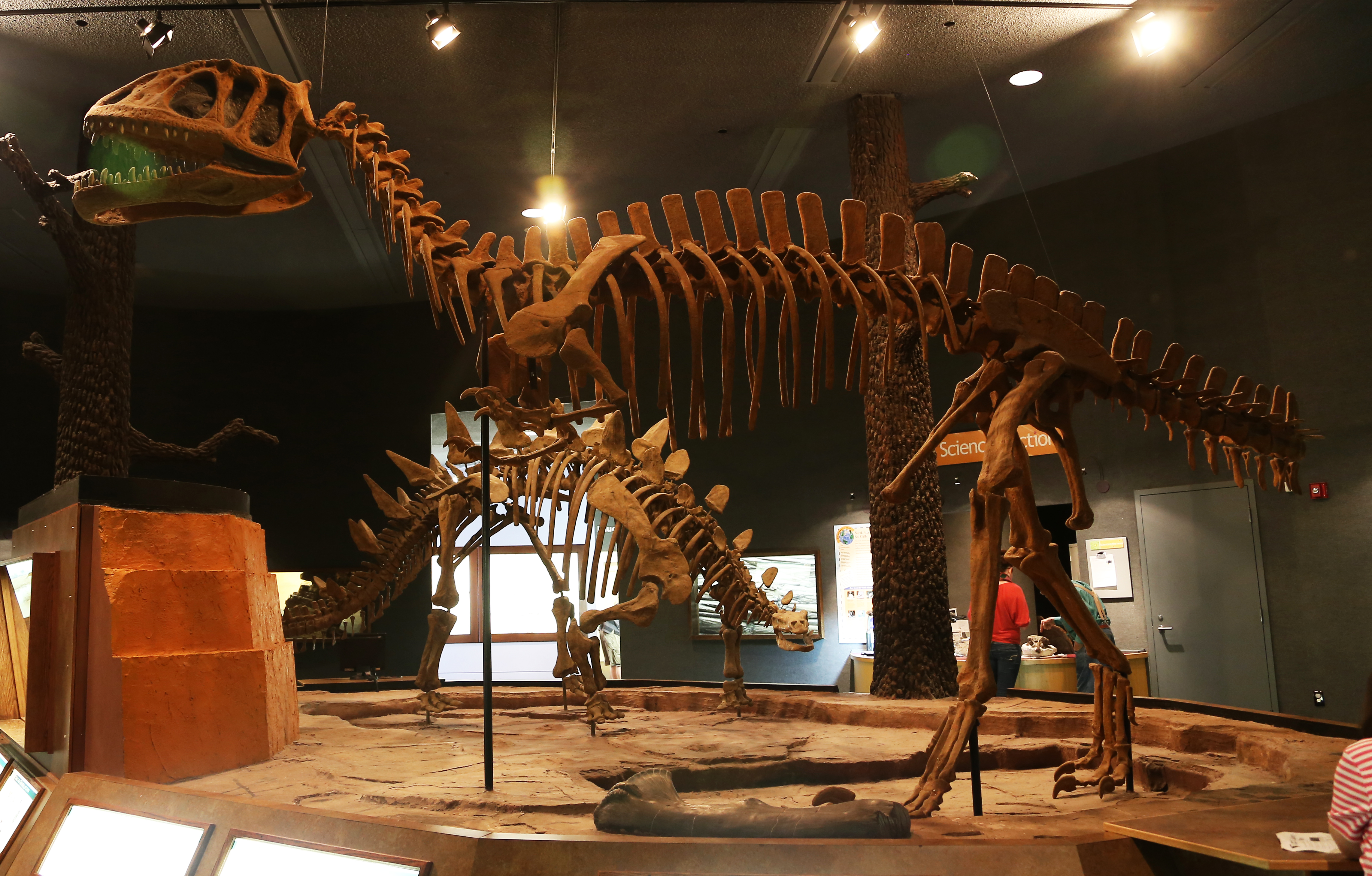 Delaware Museum of Natural History Wilmington DE July 6, 2013